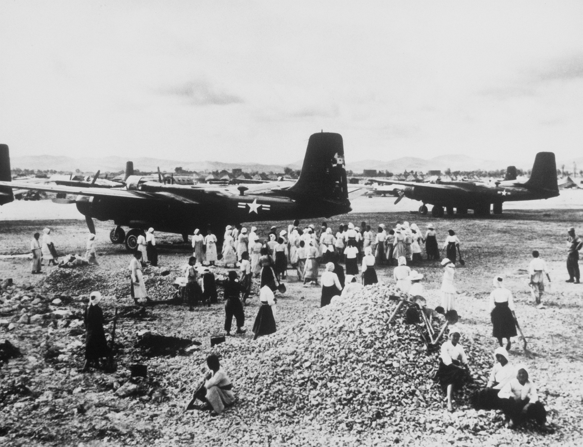 South Korean labourers gather around an U.S. Air Force Douglas RB-26C Invader reconnaissance aircraft of the 67th Tactical Reconnaissance Wing in October 1951.